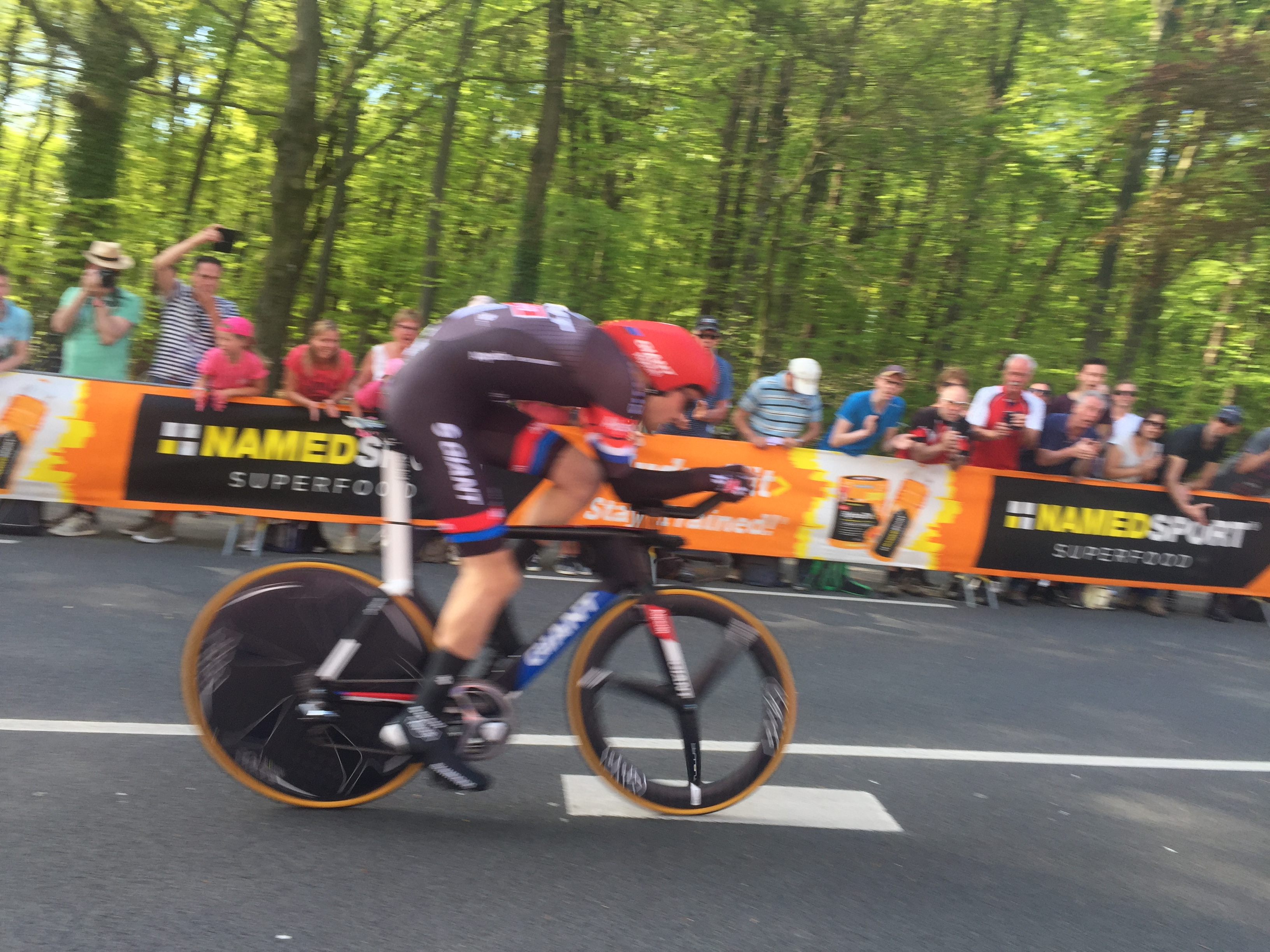 Prologue time trial in Apwldoorn of the Giro d'Italia 2016